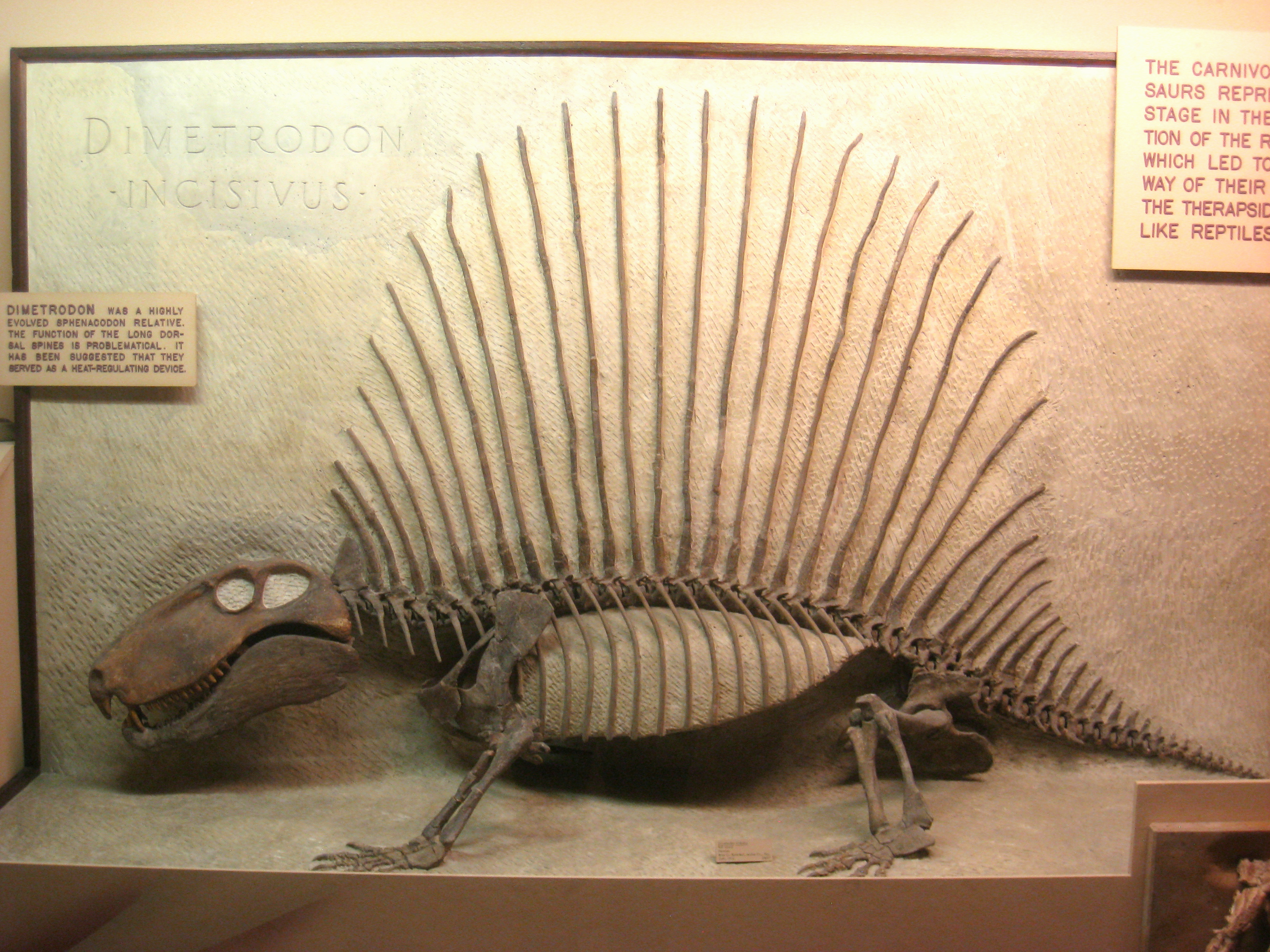 Dimetrodon incisivus. Exhibit Museum of Natural History, University of Michigan, 1109 Geddes Avenue, Ann Arbor, Michigan, USA.